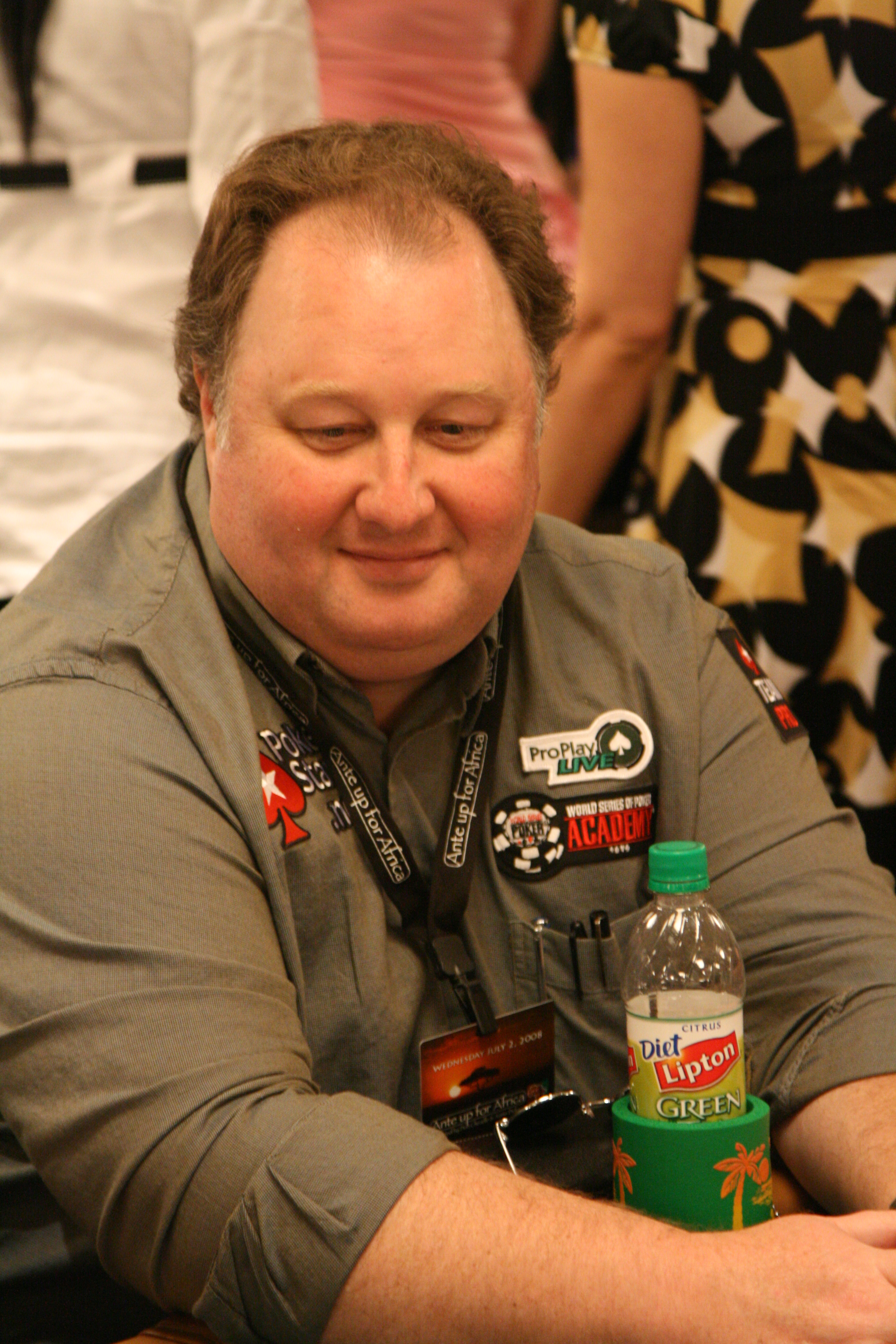 Greg Raymerk at the 2008 World Series of Poker